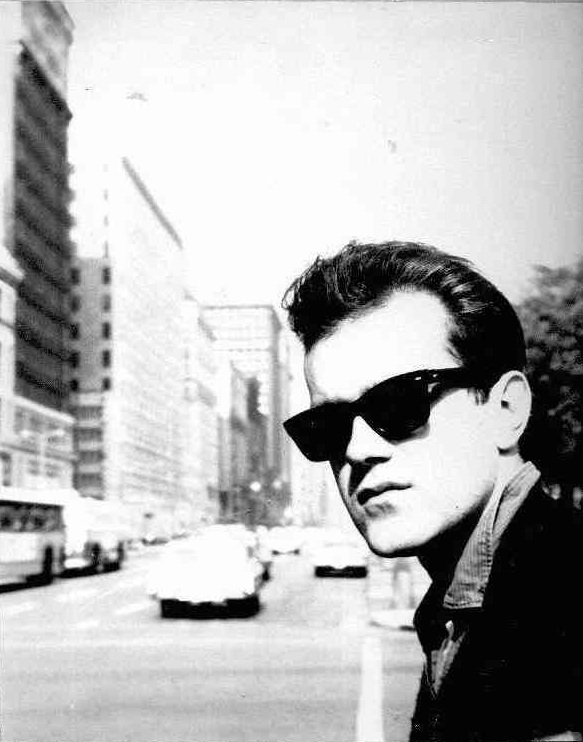 Photo of Dick Campbell (singer-songwriter) in Chicago Illinois in 1966.